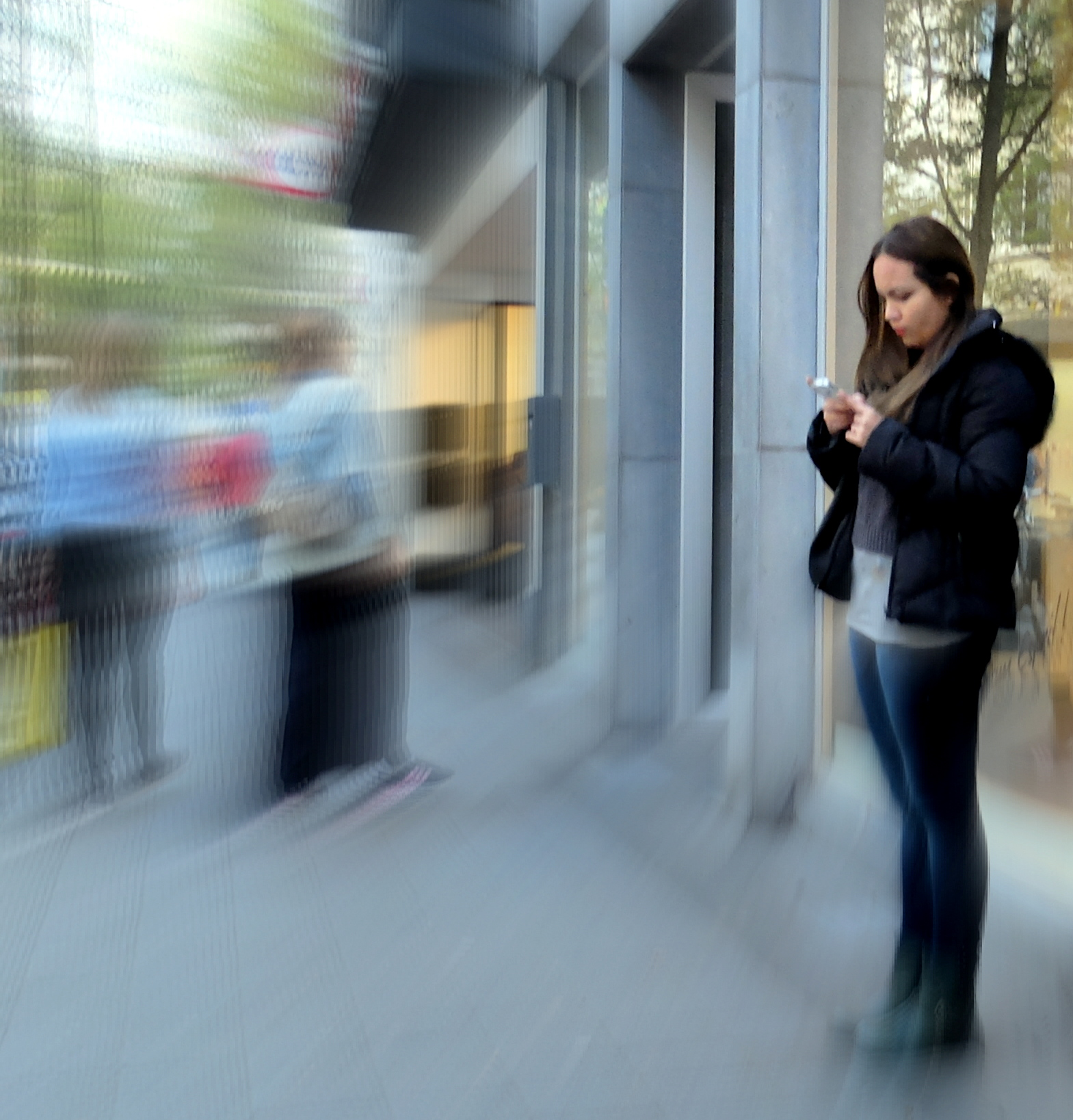 "A woman is an island", photo by Jules Grandgagnage Soft focus enhanced with Picasa